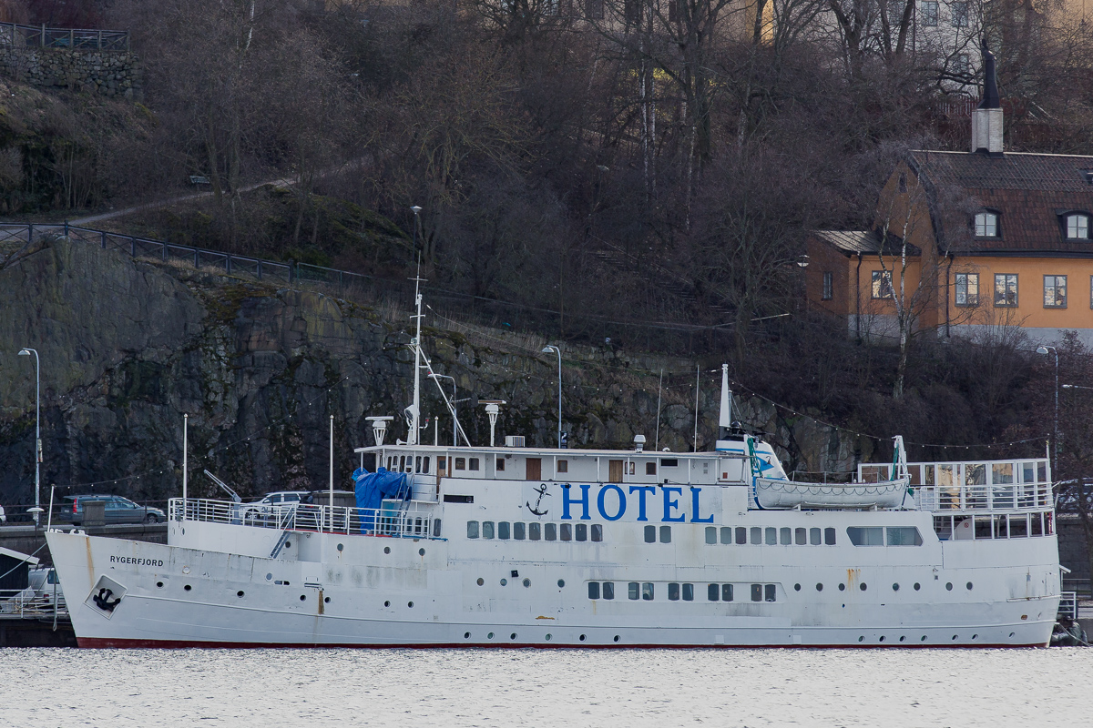 MS Rygerfjord in Stockholm, Sweden